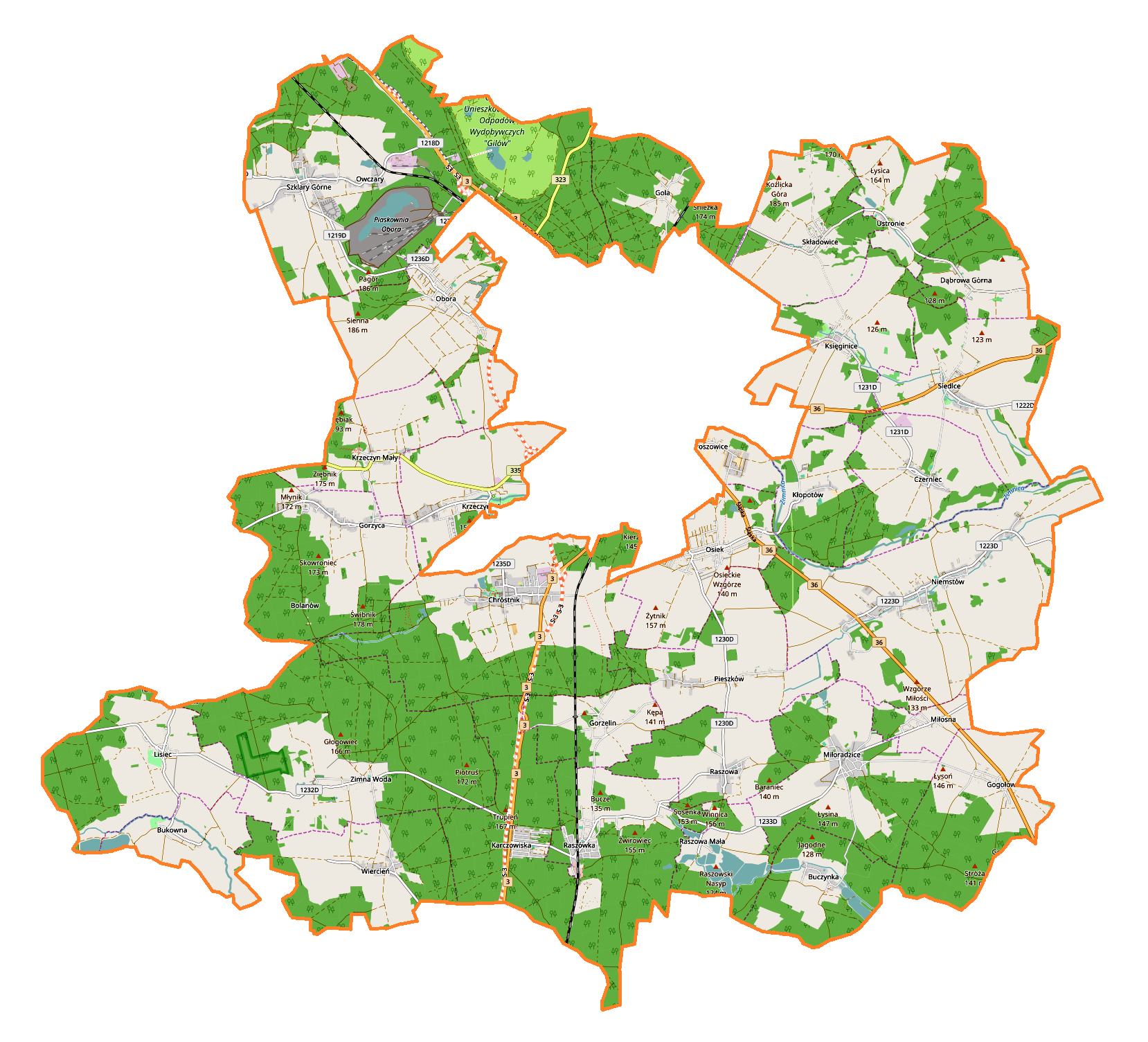 Location map